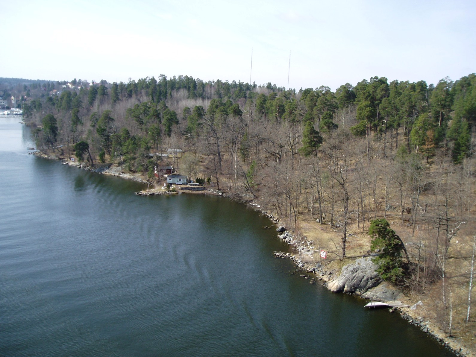 Park in Nacka municipality, Sweden